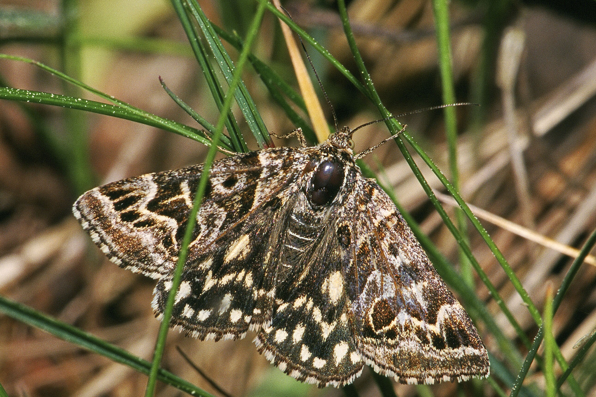 Mother Shipton, Callistege mi (Clerck, 1759)